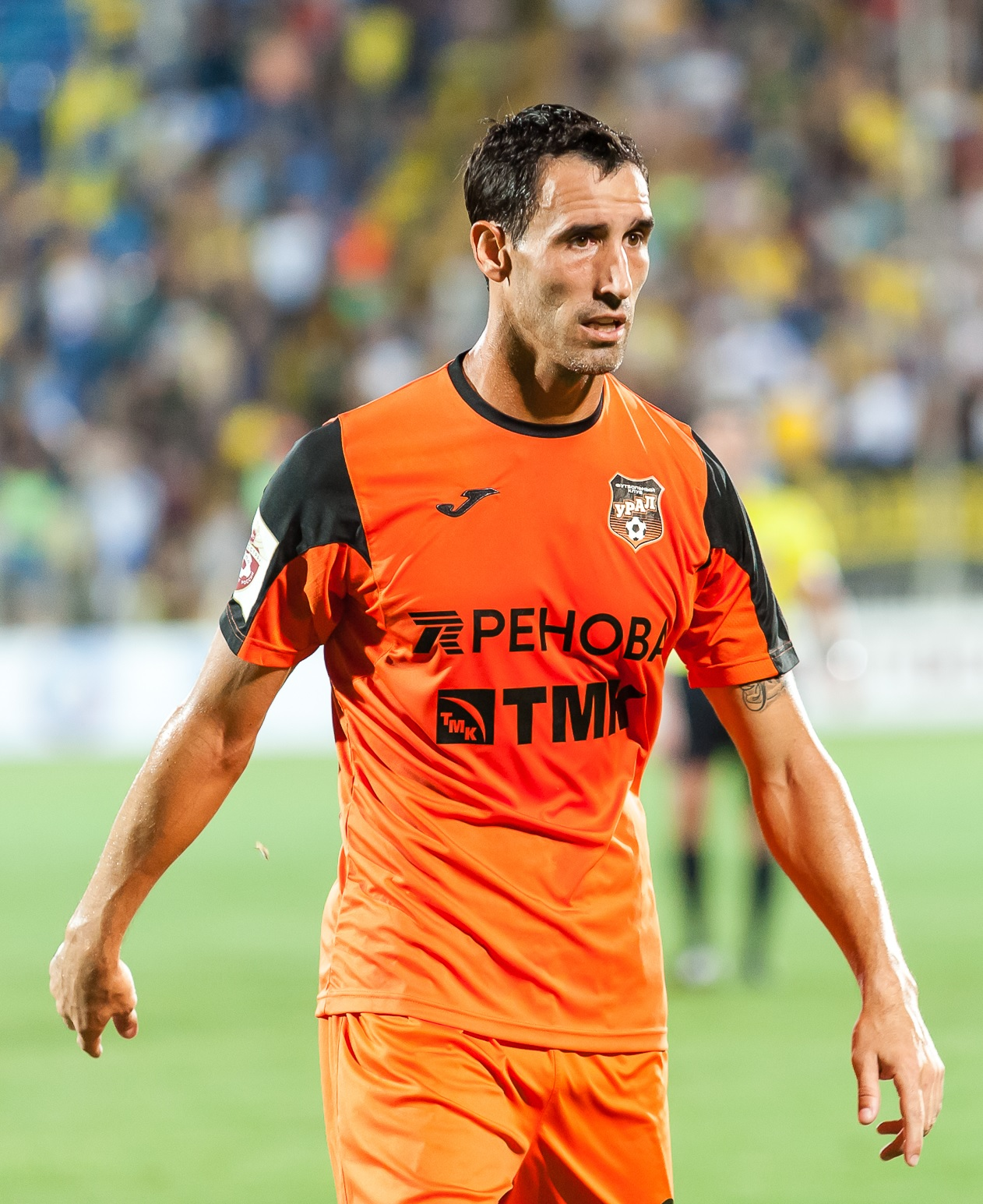 Pablo Fontanello playing for FC Ural Sverdlovsk Oblast against FC Rostov.